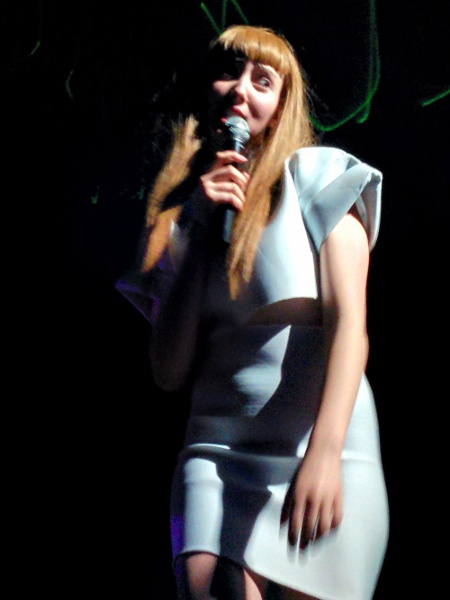 QT performing "Hey QT" at 1015 Folsom in San Francisco, California, United States